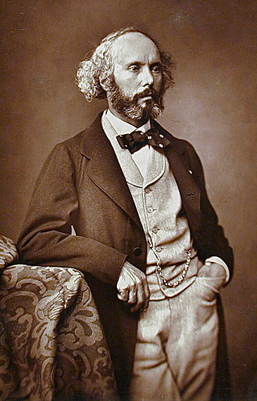 Bertall & Co. (France, died N/A) Félicien David, 1876-1884 Photograph, Woodburytype, 9 x 7 1/4 in. (22.86 x 18.4 cm)